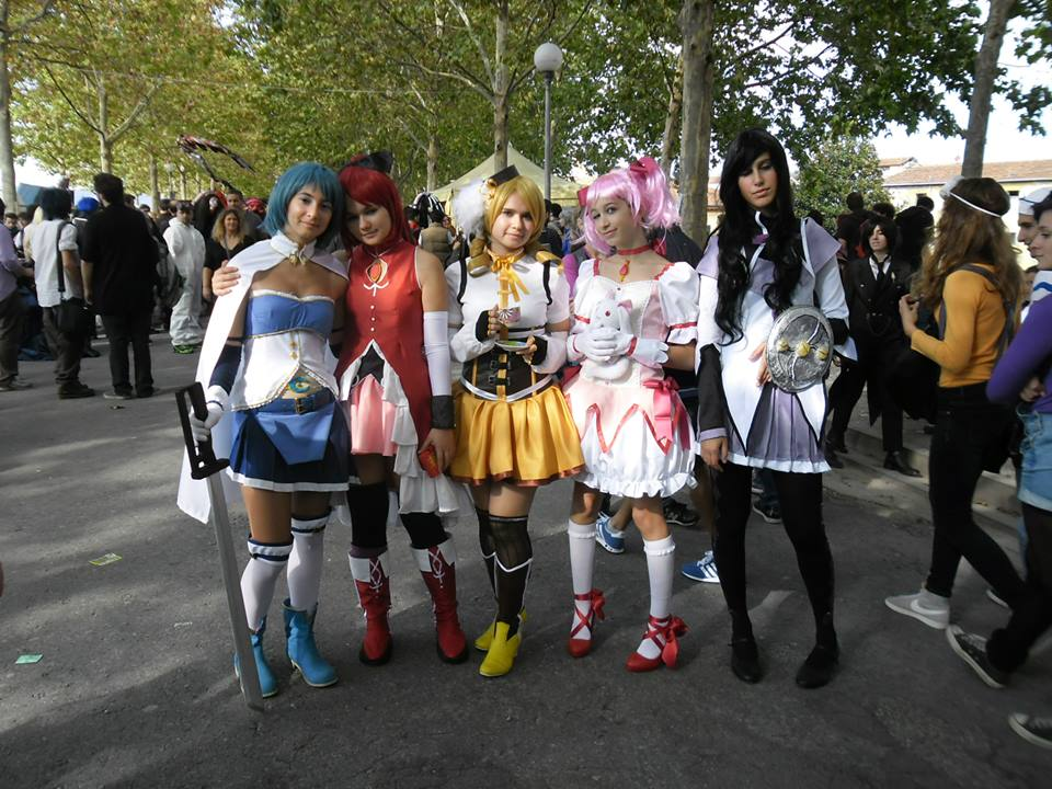 Cosplayers at Lucca Comics 2013